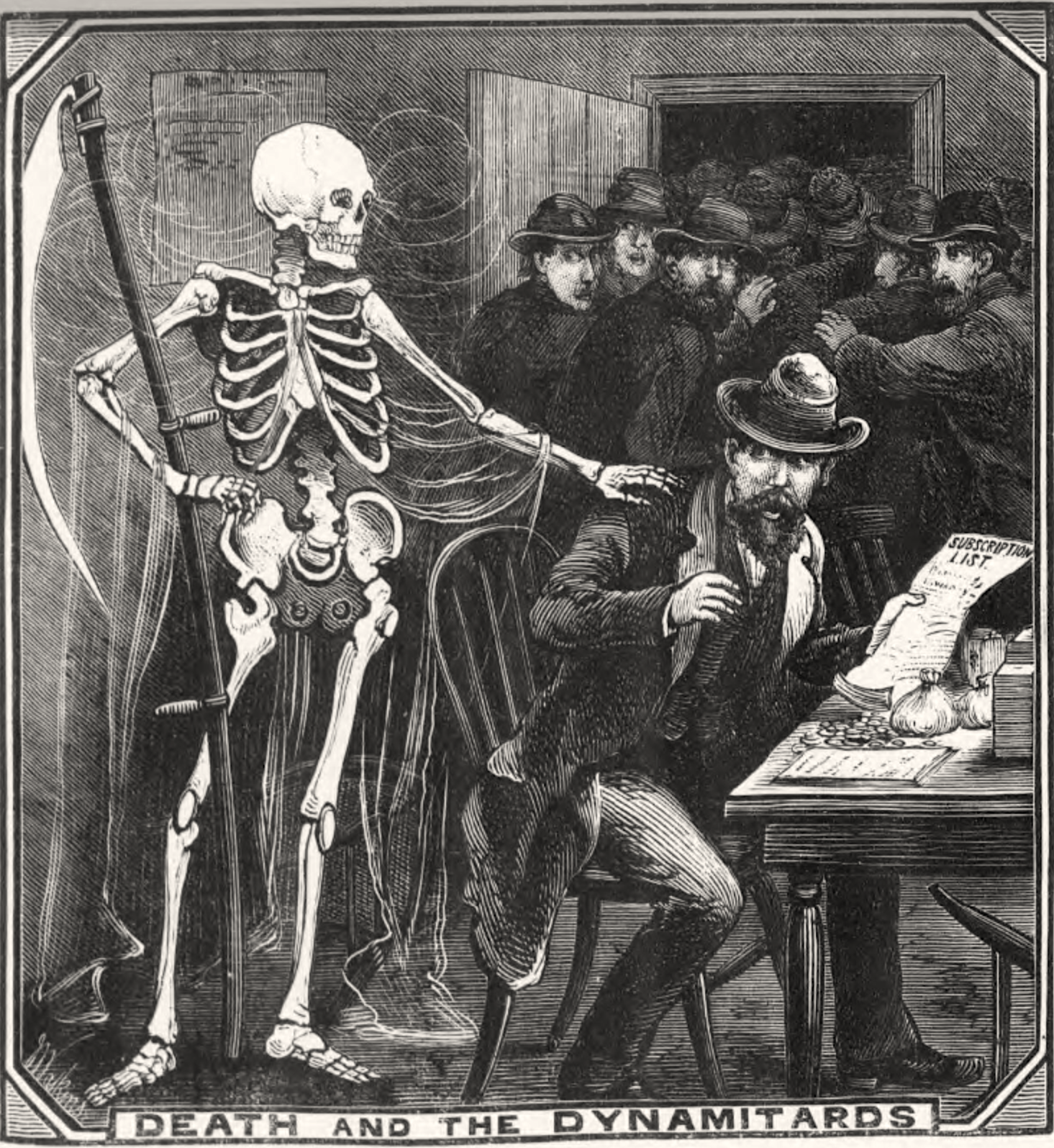 Engraving in the Illustrated Police News, London, 21 February 1885, concerning the activities of the dynamitards.